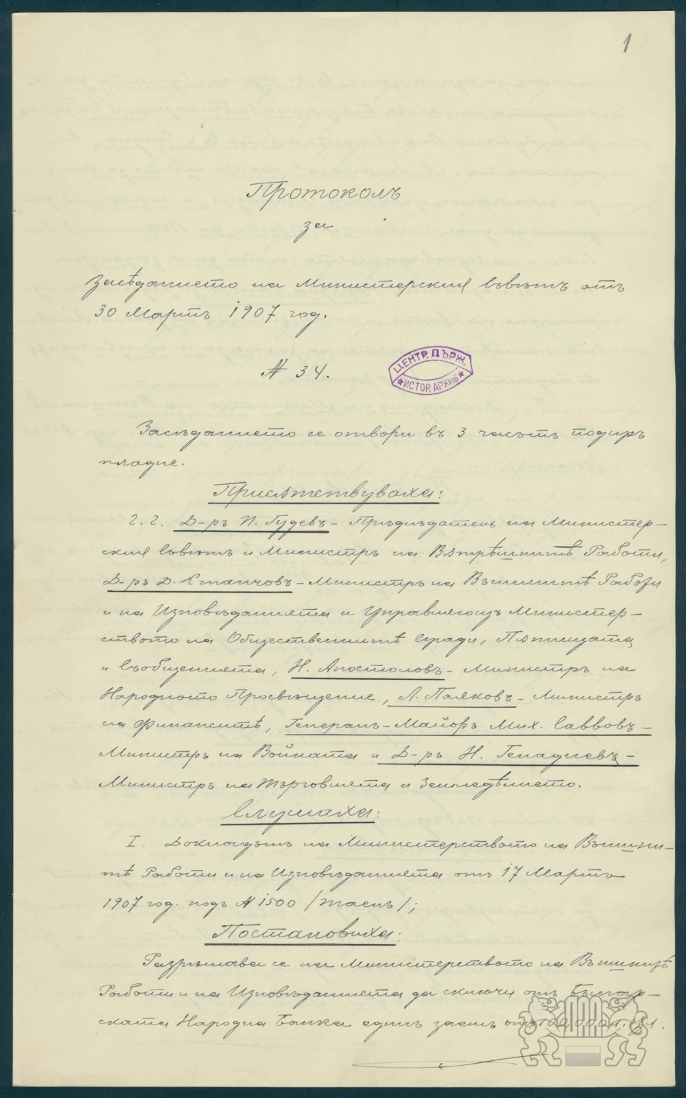 Bulgarian Cabinet Decision for allocation of funds 30 March 1907 - Page 1